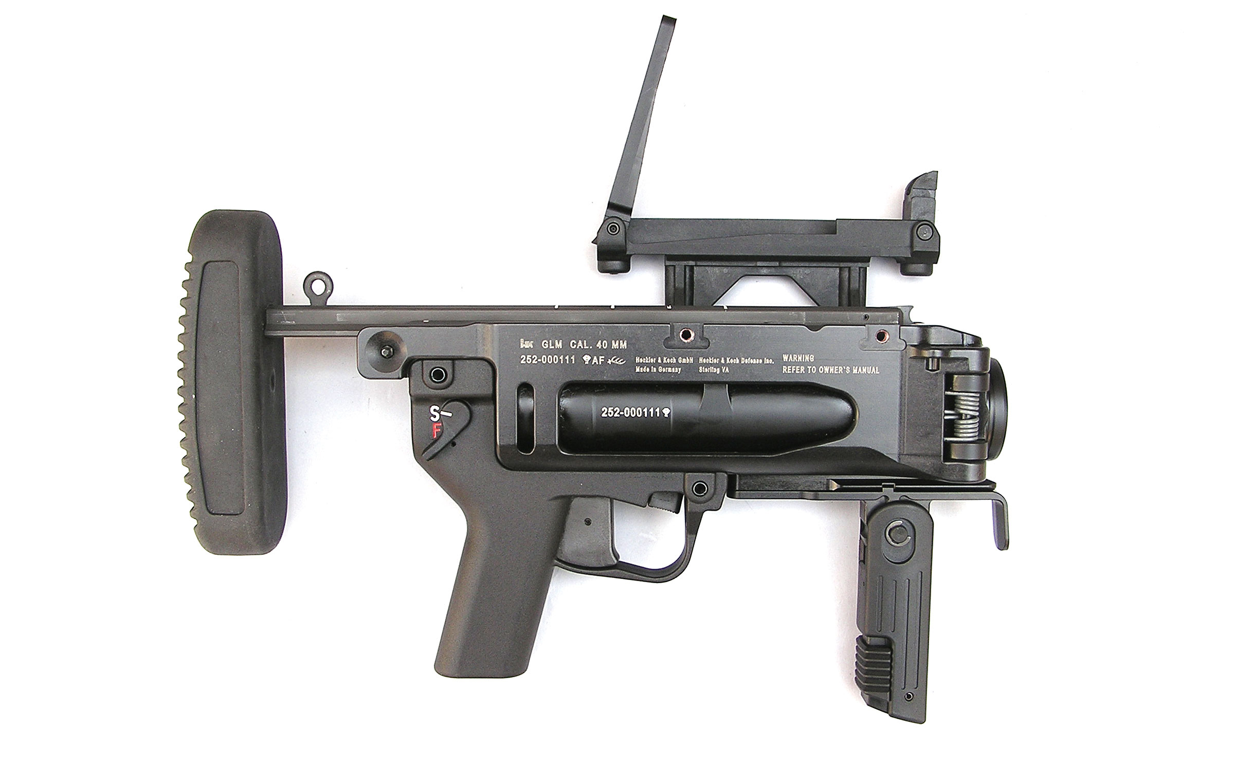 M320 40mm Grenade Launcher Module The M320, a 40mm grenade launcher, is the replacement to all M203 series of grenade launchers on M16 Rifles and M4 Carbines. An interoperable system, it attaches under the barrel of the rifle or carbine and can convert to a stand-alone weapon. The integral day/night sighting system, unrestricted breech mechanism, and double-action firing trigger deliver superior overmatch capabilities. Located on the side of the launcher, the new sighting system design lessens interference with rifle and carbine sights, reduces attaching operations to one action, and eliminates the need to re-zero after reattaching to a weapon. The M320 barrel opens to the side, allows for an unrestricted breech enabling the firing of all standard U.S. 40mm low-velocity ammunition as well as longer-than standard ammunition. The new pistol grip design eliminates the need to use the magazine as a hand grip. If the weapon misfires, the operator can pull the trigger again, compared with the M203, which requires cycling of the breech to re-cock the firing pin and pulling the trigger again. With the advancement of composite materials, the latest in lightweight material. composites are used to improve durability.